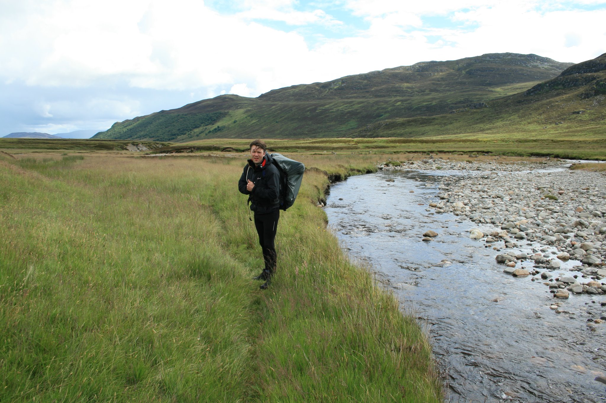 Glen Banchor, East Highland Way, Newtonmore, Laggan